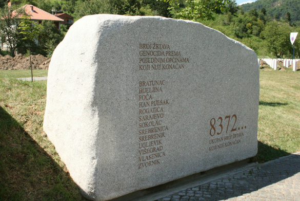 Commemorative stone at the Srebrenica-Potočari Memorial Center in Bosnia.